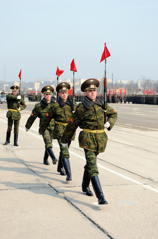 Honor guard troopers at Repetition of V-Day parade